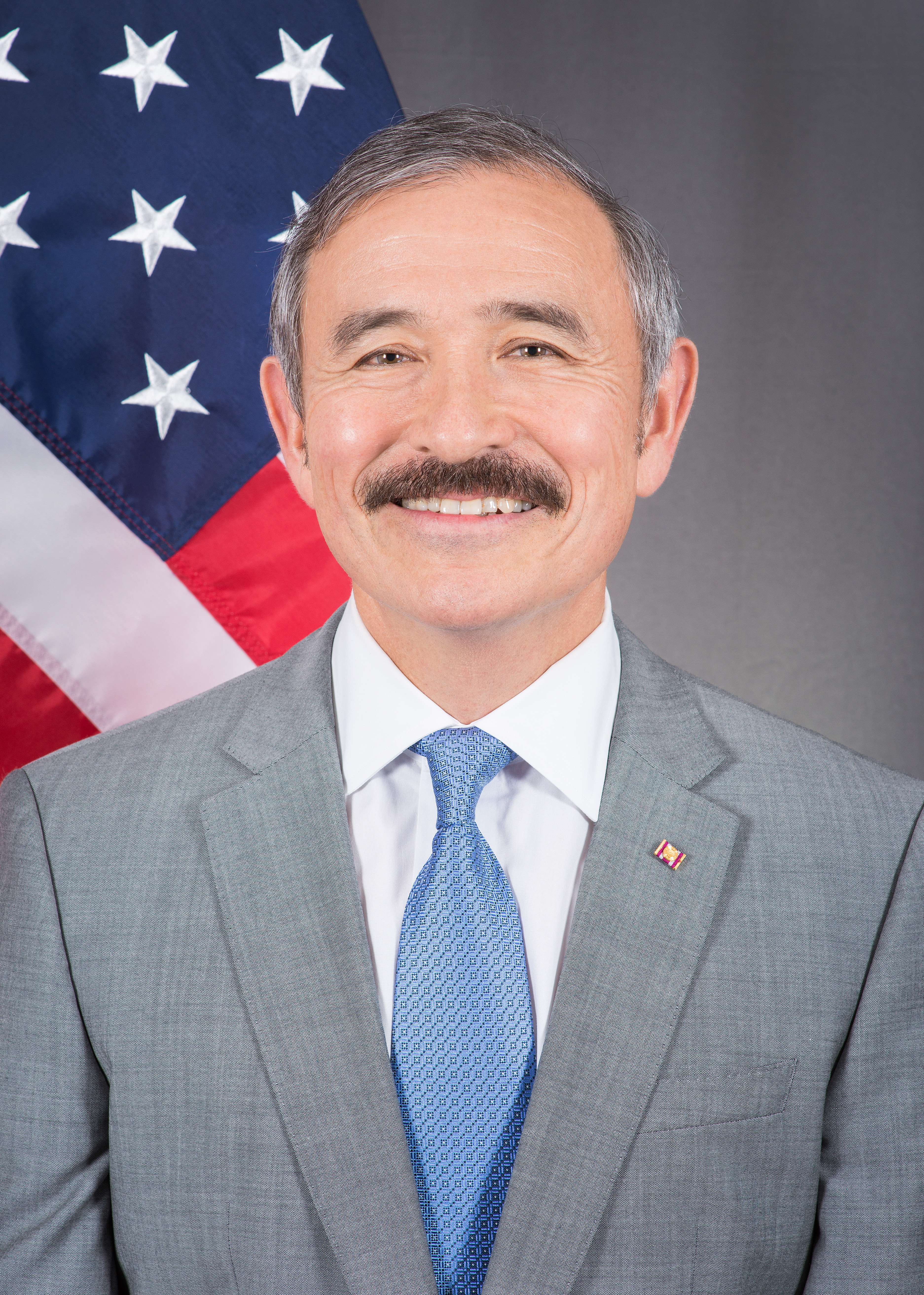 Harry B. Harris, Jr., Ambassador to the Republic of Korea